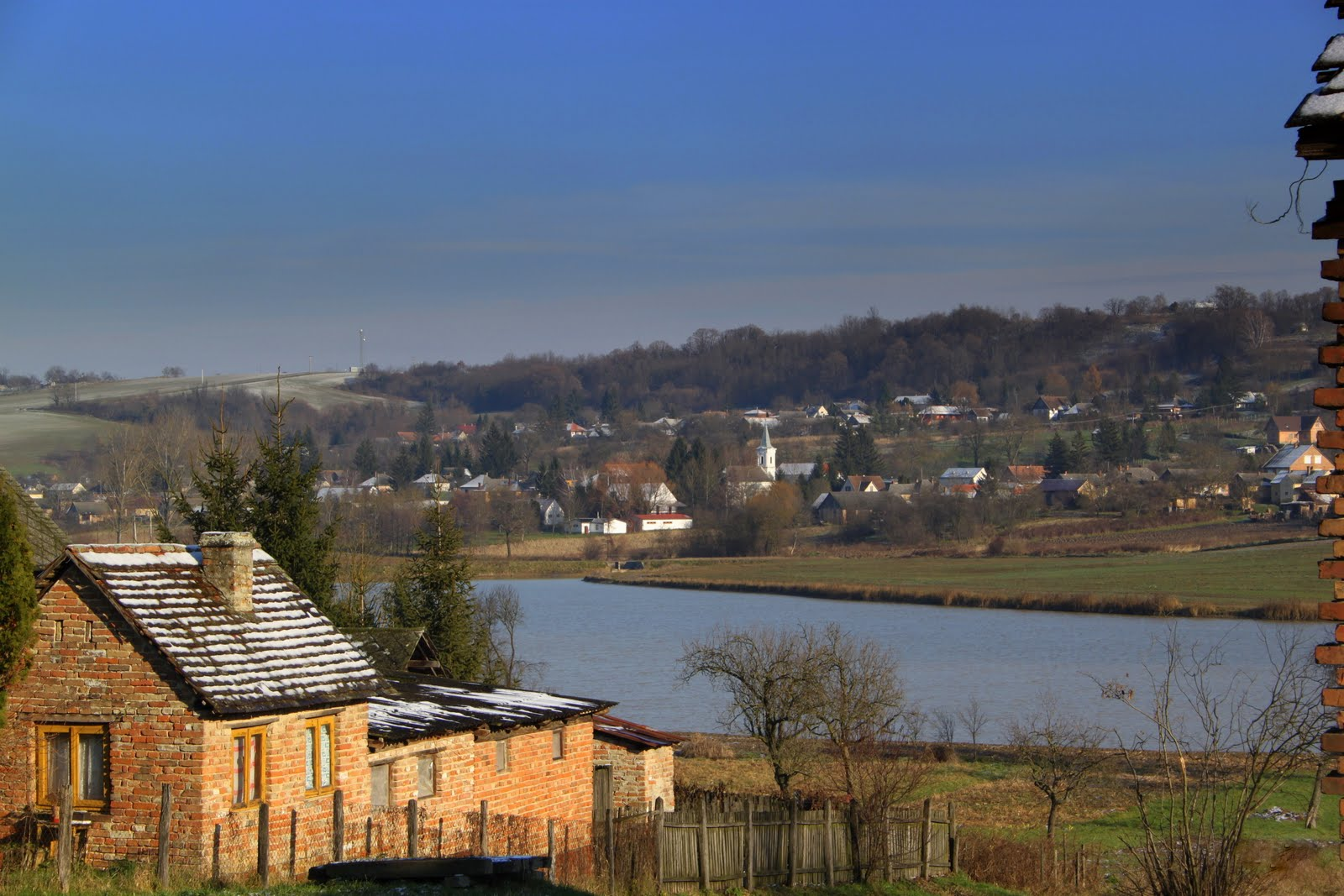 Szilvásszentmárton, Somogy County